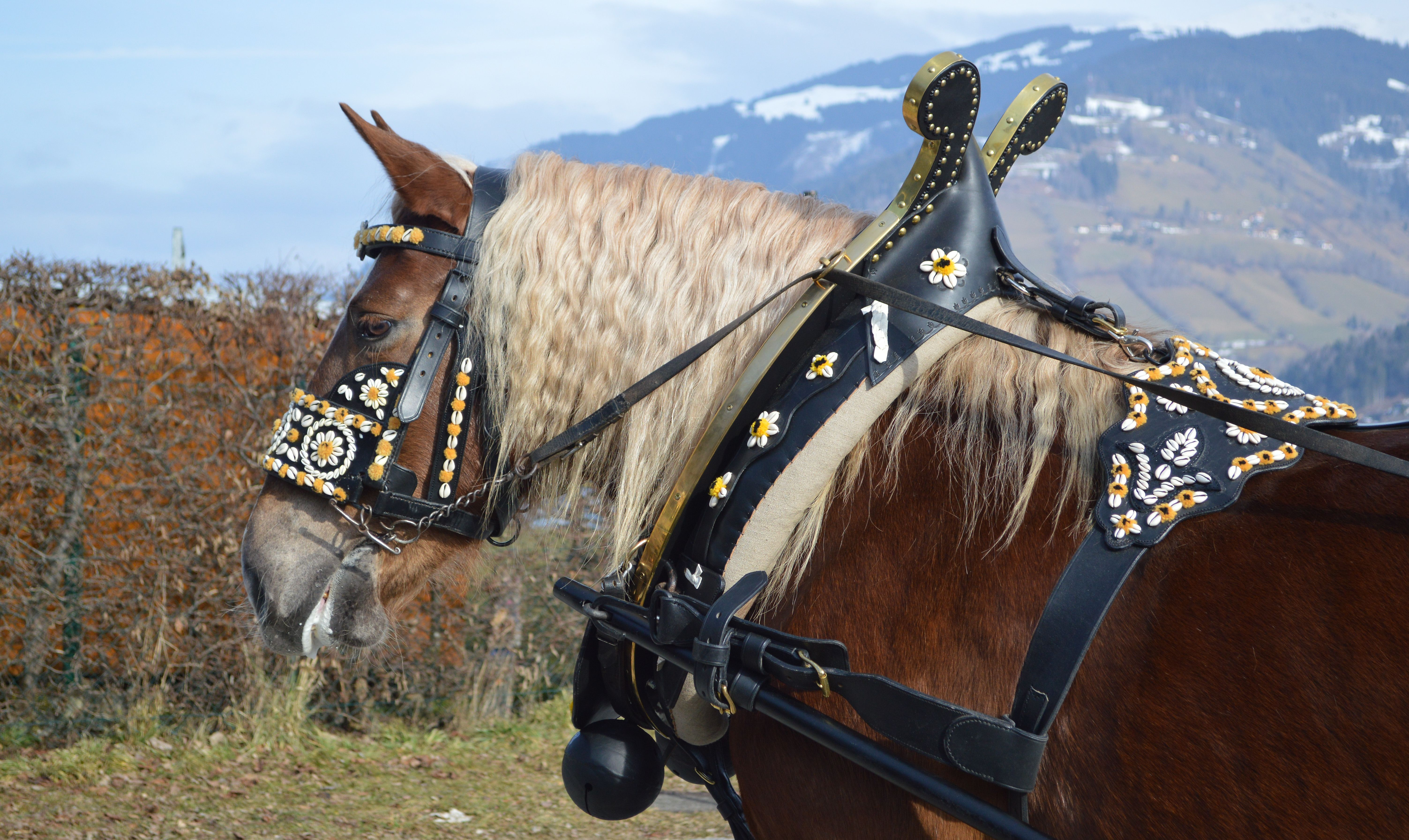 Pinzgauer Brauchtums- und Trachtenschlittenfest, Zell am See, Austria, 2. Februar 2014